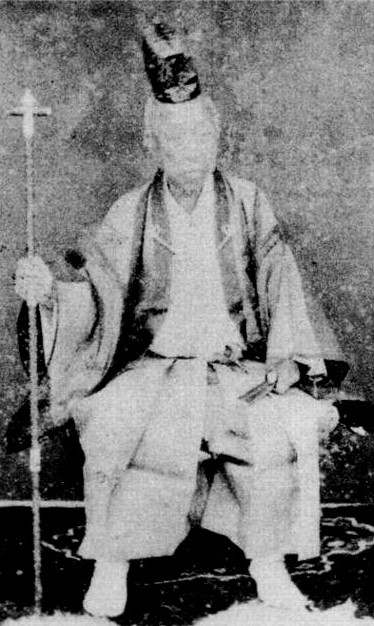 Portrait of Prince Fushimi Kuniie.